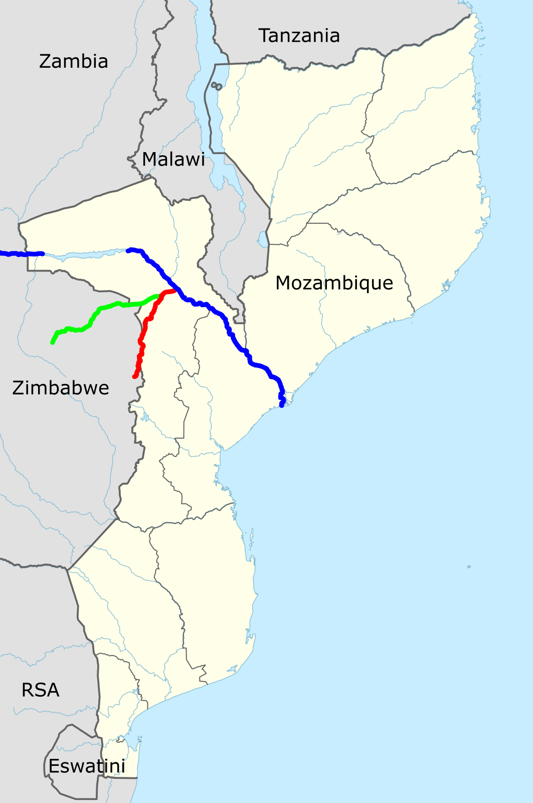 Zambia River (blue), Mazowe River (green), Luenha River (red) simplified